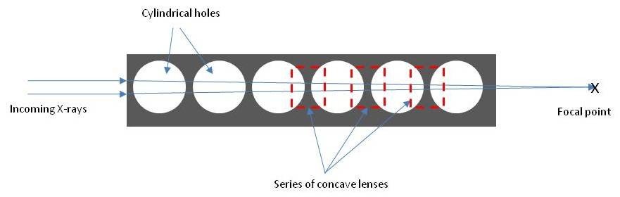 Compound refractive lens for x-ray focusing.